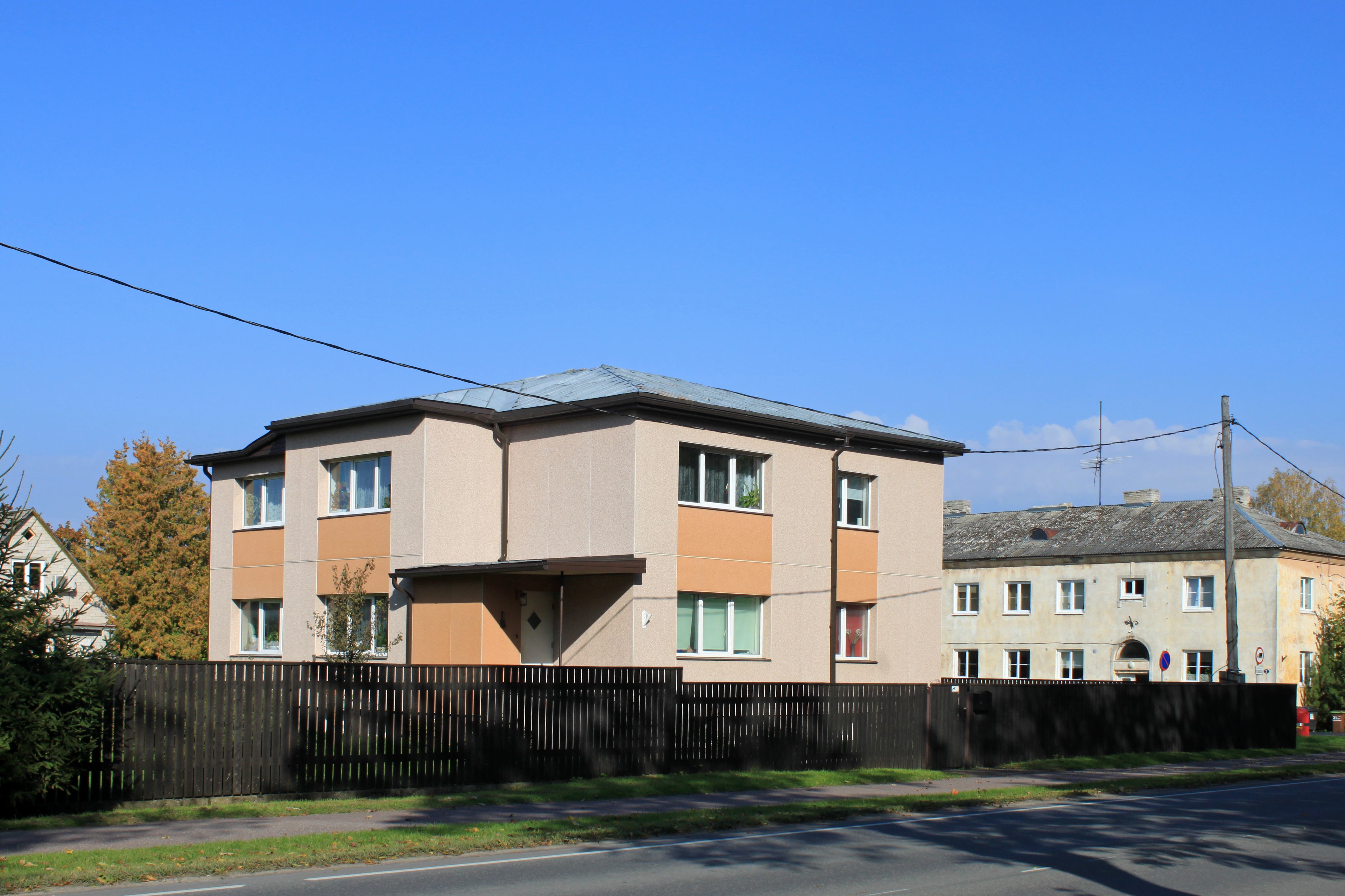 Tallinn street, Saku small town. Estonia, Harjumaa